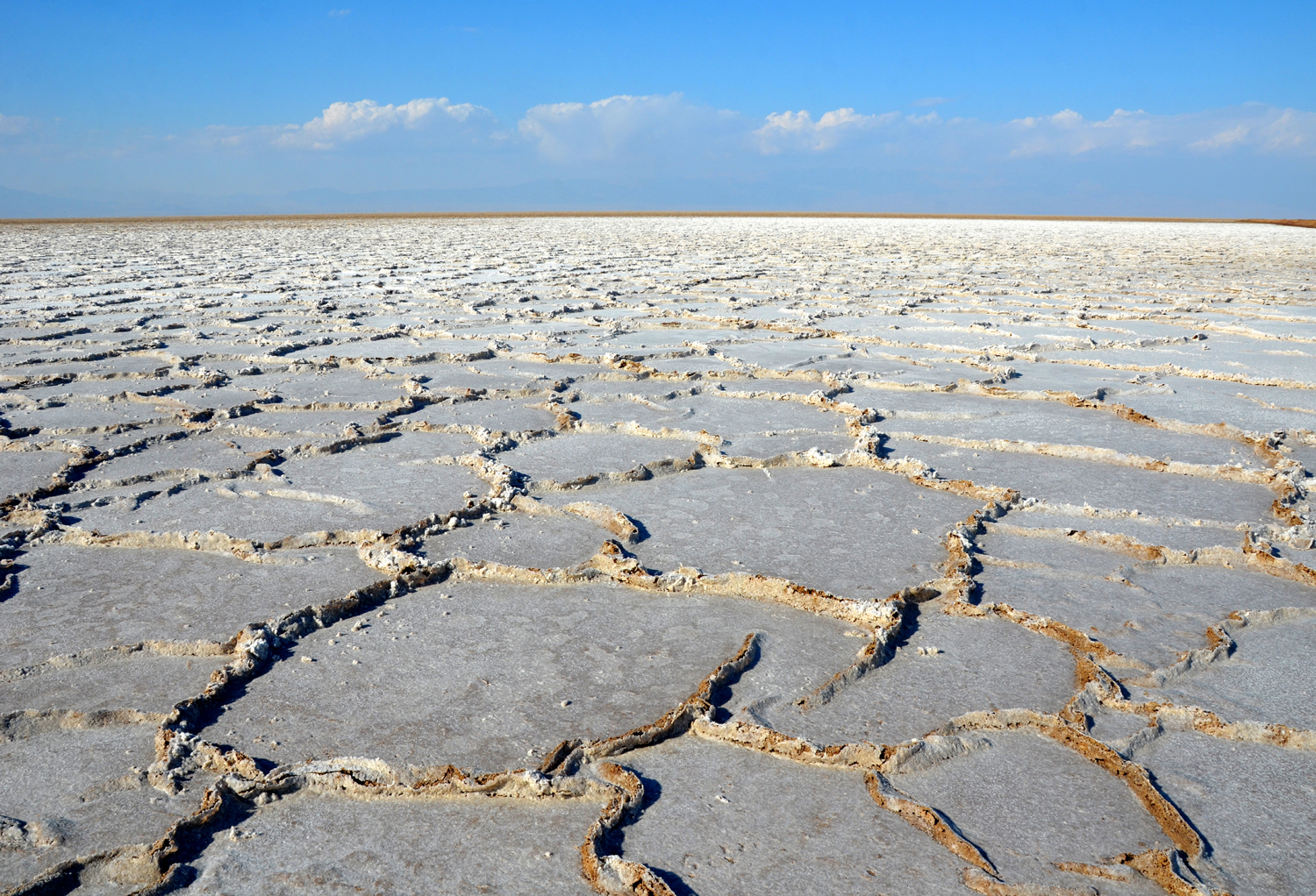 Damghan - Dasht Kavir - Haj Aligholi desert